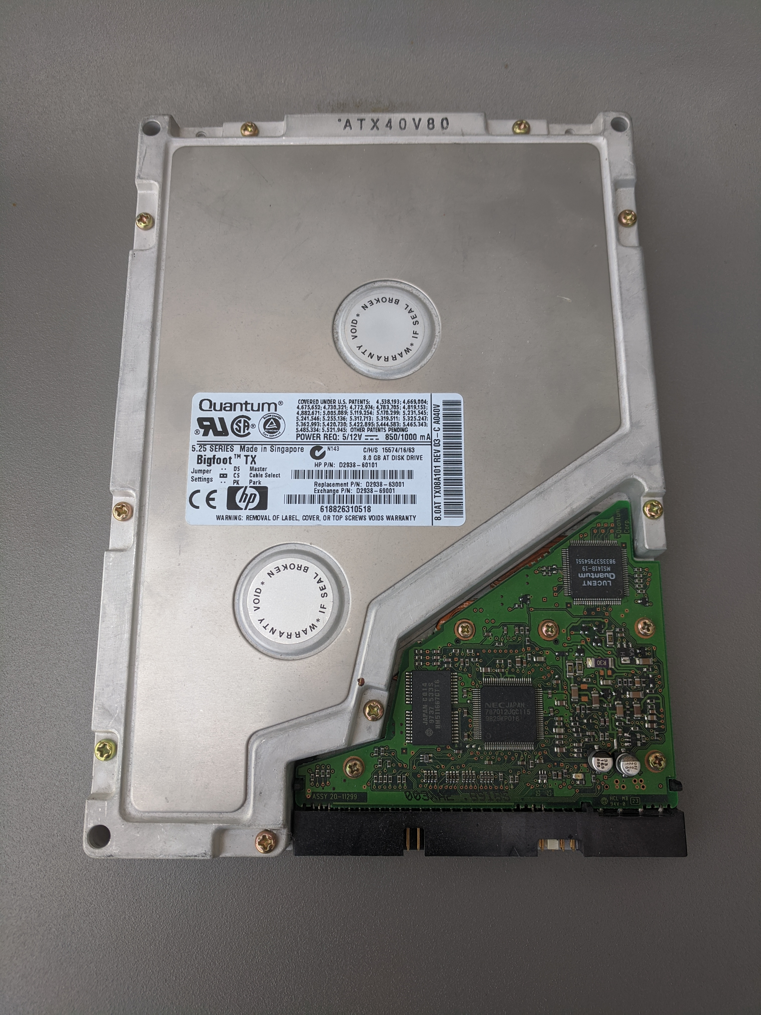 Quantum Bigfoot TX 8GB hard drive